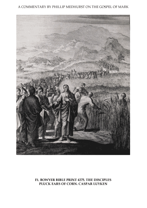 The disciples pluck ears of corn. Caspar Luyken. In the Bowyer Bible in Bolton Museum, England. Print 4275. From “An Illustrated Commentary on the Gospel of Mark” by Phillip Medhurst. Section F. various teachings image. Mark 2:18-22, 3:22-35.